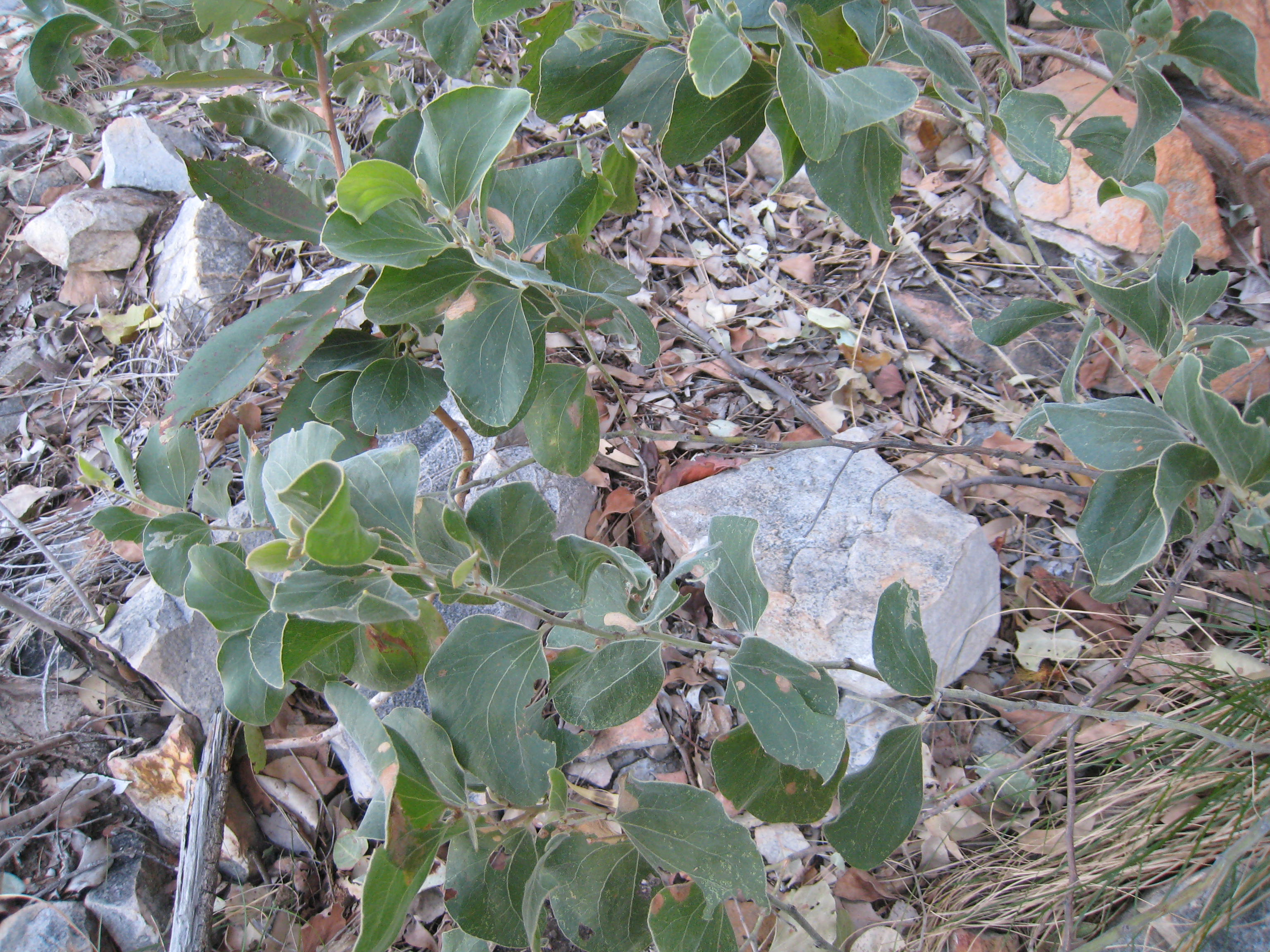 Acacia dimidiata Bradshaw Field Training Area, the Kimberley, NT, Australia